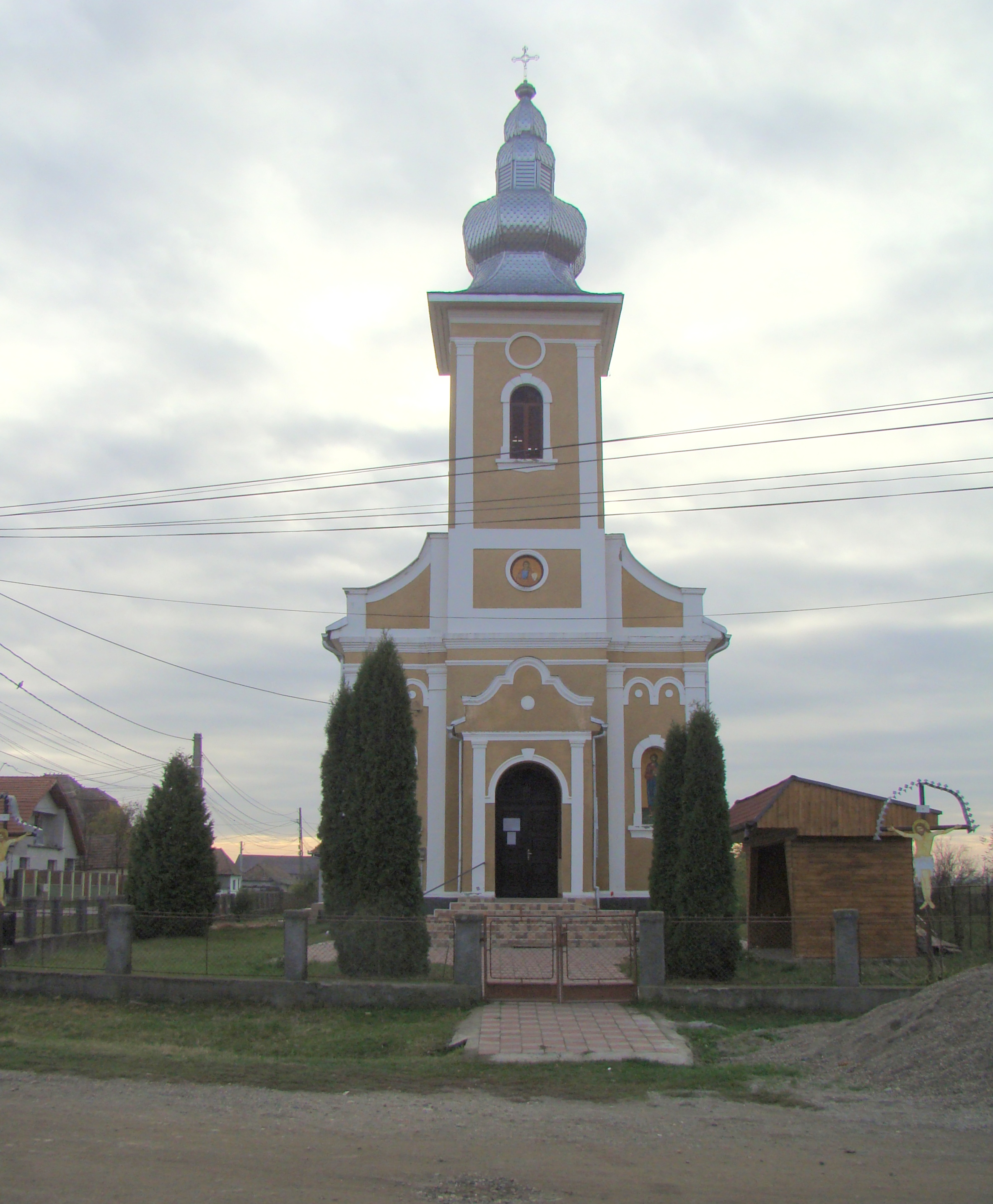 Orthodox church in Chirileu, Mureș county, Romania